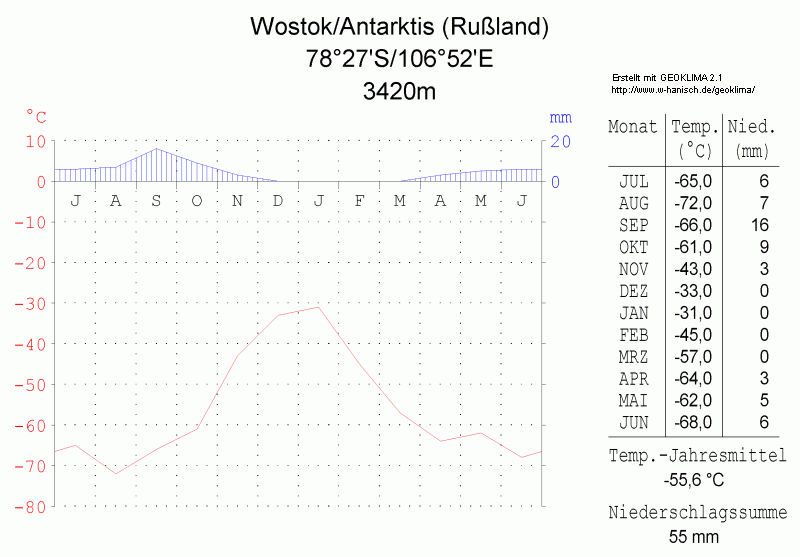 climate chart in the format by Walther and Lieth, metric, °Celsisus and millimeters, made with Geoklima 2.1